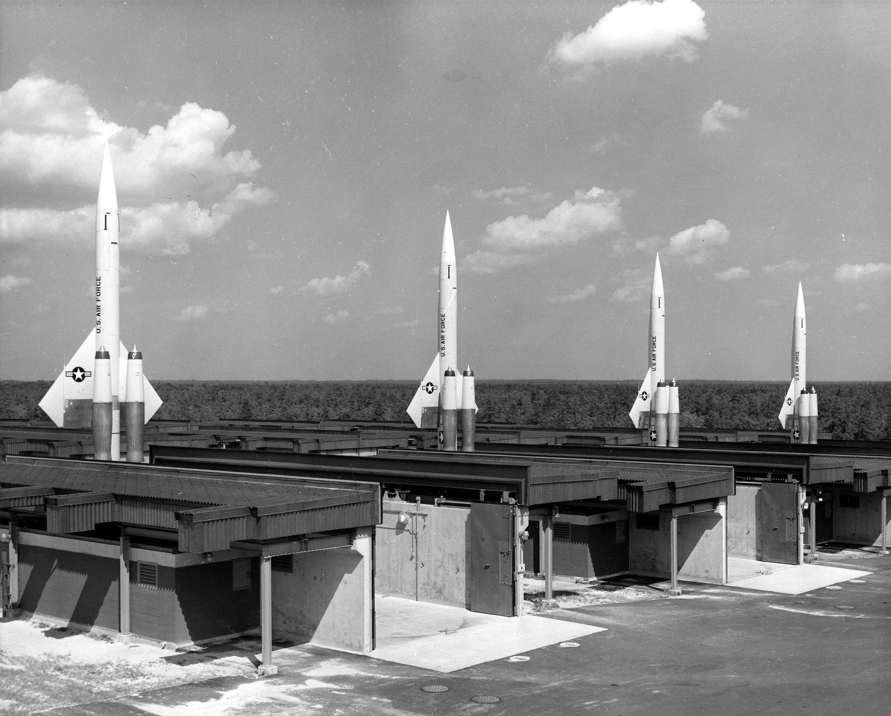 The BOMARC launch complex on Category:Fort Dix became operational on 1 September 1959 with 3 IM-99A missiles (24 by 1 January)[1] and was the site of the 7 June 1960 nuclear accident in Launcher Shelter 204 (destroyed, not shown). George Washington University caption: "Four of 56 U.S. Air Force BOMARC IM-99A nuclear antiaircraft missiles emplaced at a site about twenty miles southeast of Trenton, New Jersey near McGuire Air Force Base. Missiles remained horizontal in the shelters shown except when preparing to launch or the erection equipment was being tested. Each missile carried a W-40 nuclear warhead which yielded about 6.5 kilotons." References ↑ NORAD/CONAD Historical Summary 1959 July-December